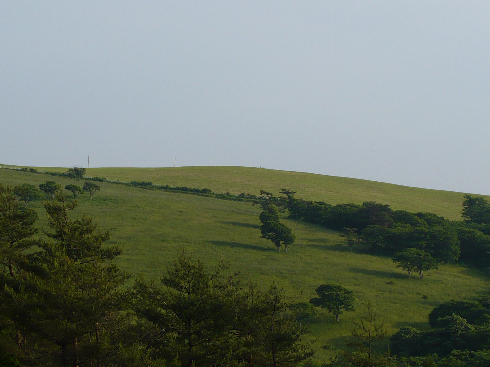 Taneyamagahara in Iwate Prefecture, Japan